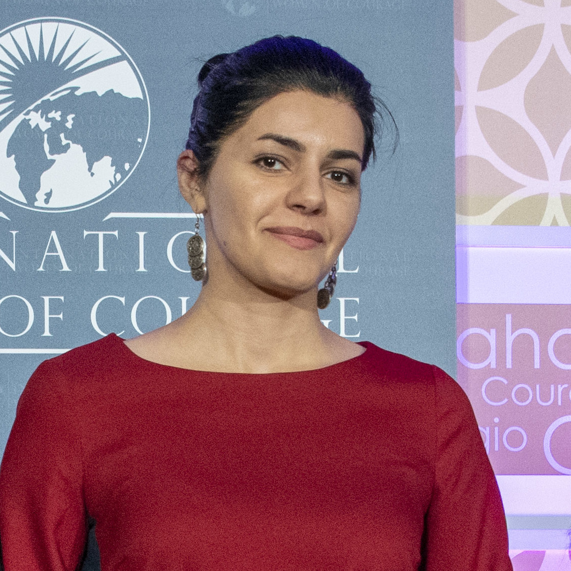 Secretary of State Michael R. Pompeo, First Lady of the United States Melania Trump, and awardee Lucy Kocharyan of Armenia pose for a photo, at the Department of State on March 4, 2020. [State Department photo by Freddie Everett/ Public Domain]